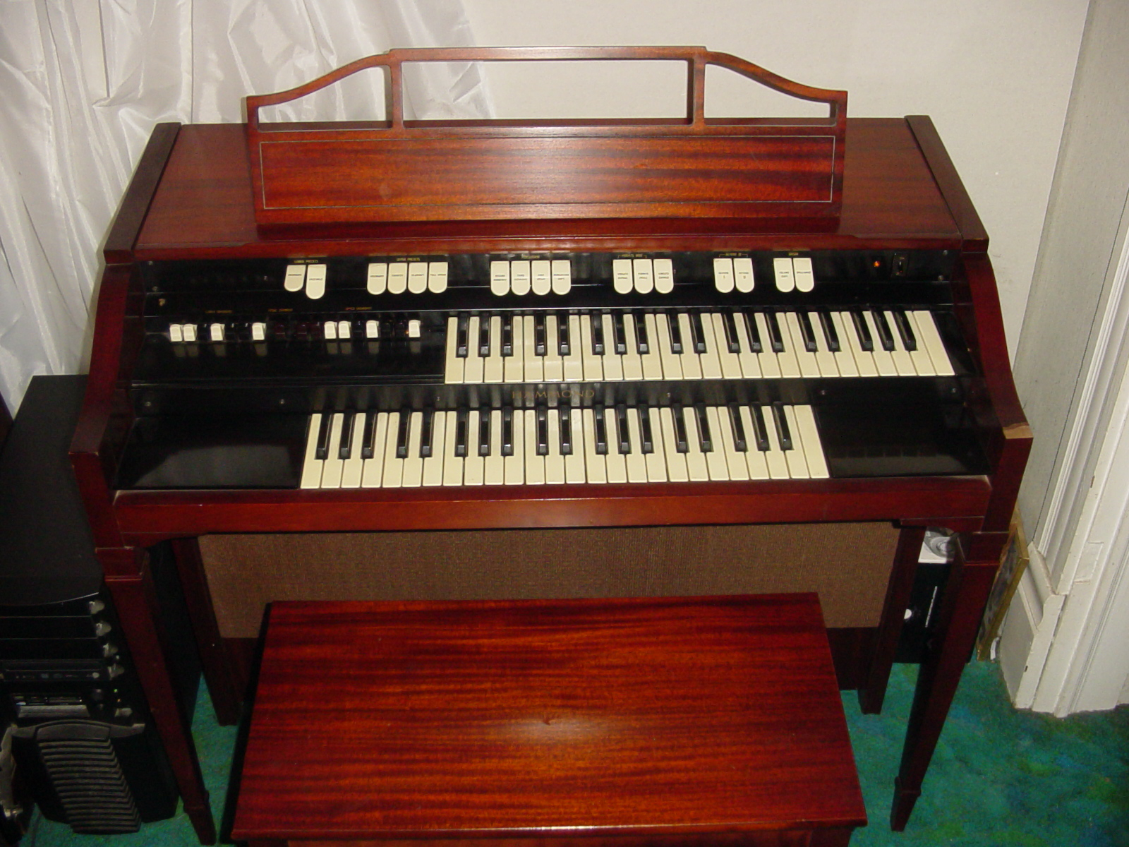 Hammond Organ model L-112